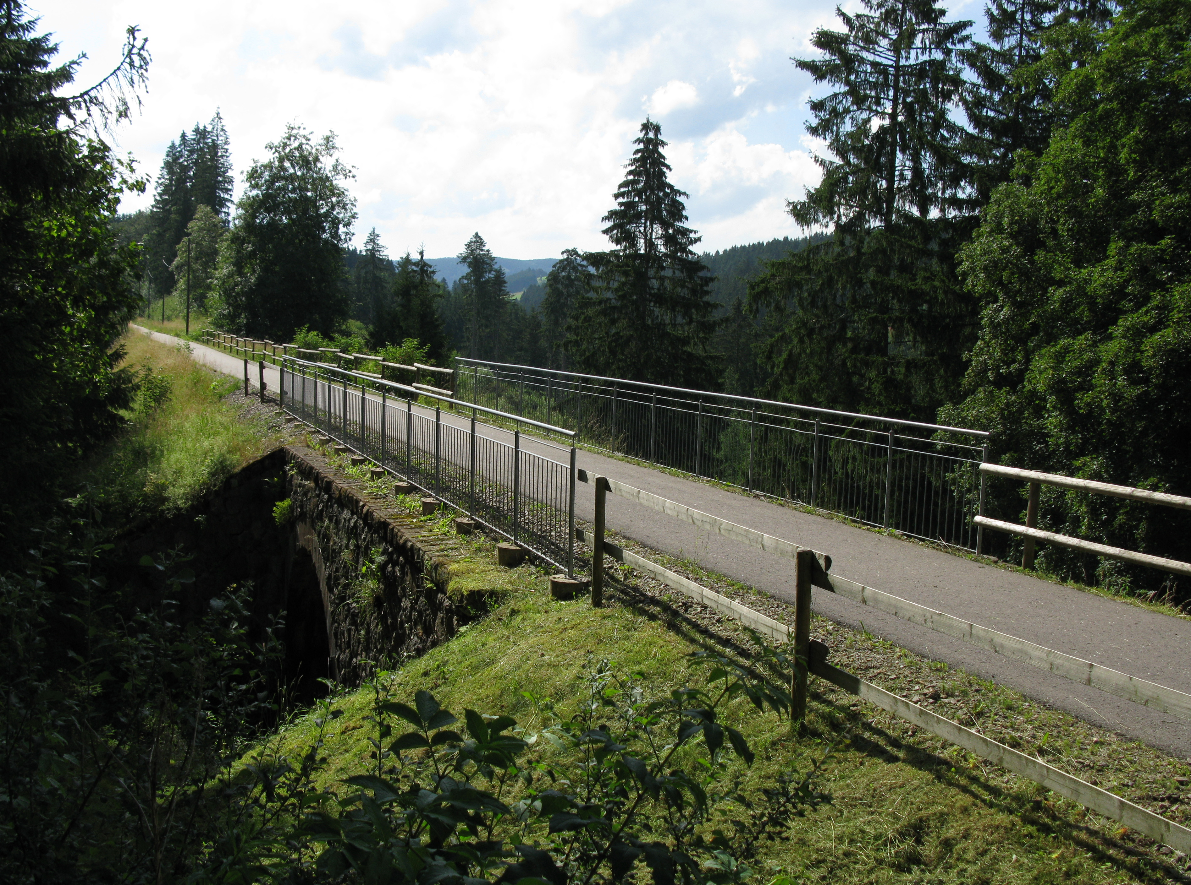 Bähnleradweg passing over the Grünwalder Street at the Löffelschmiede